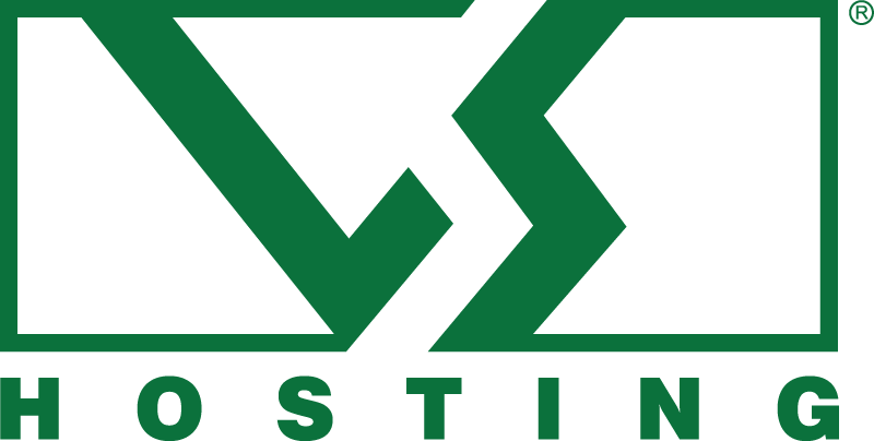 Logo of VSHosting company